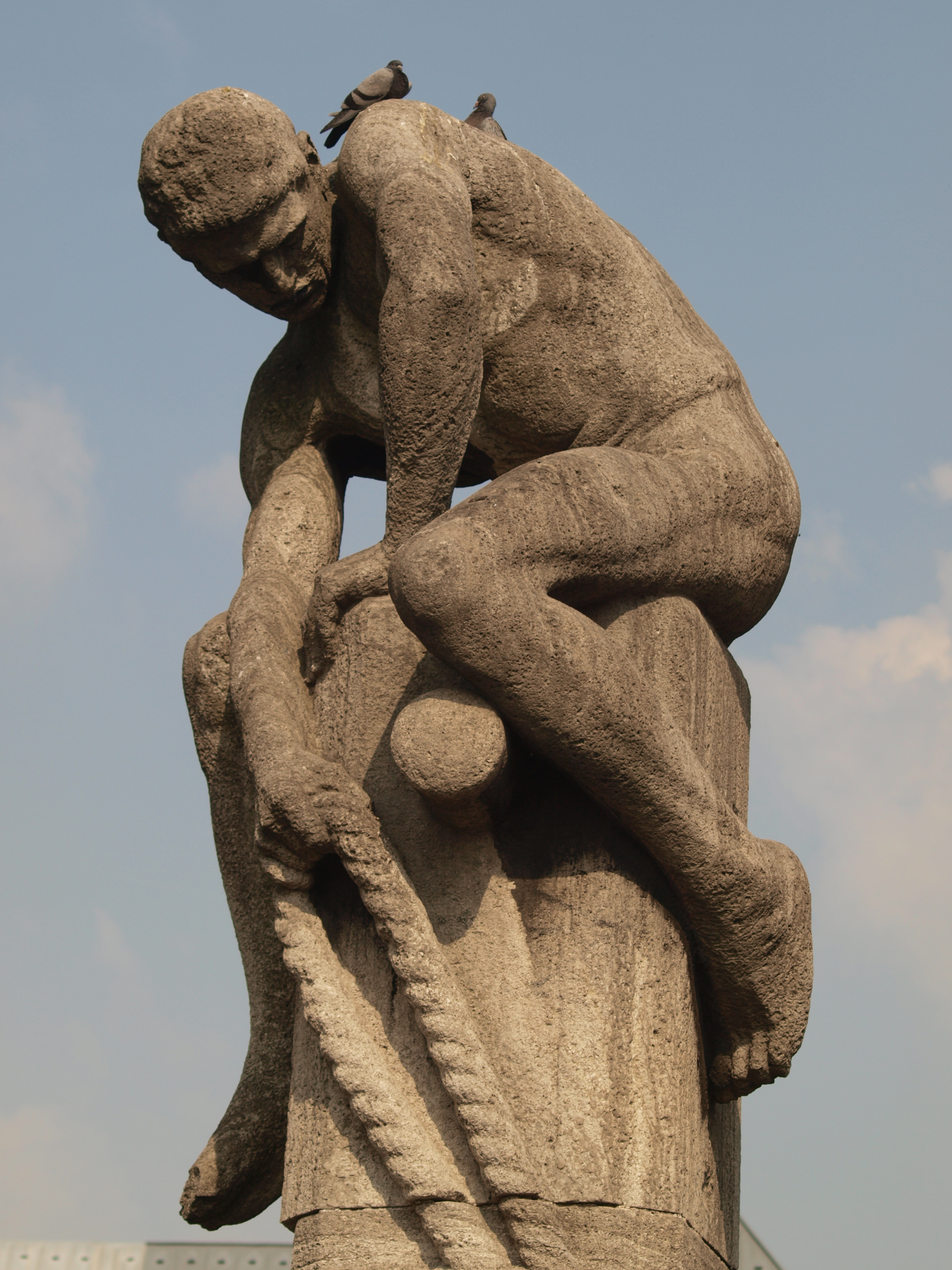 This is a photograph of an architectural monument., no. 66